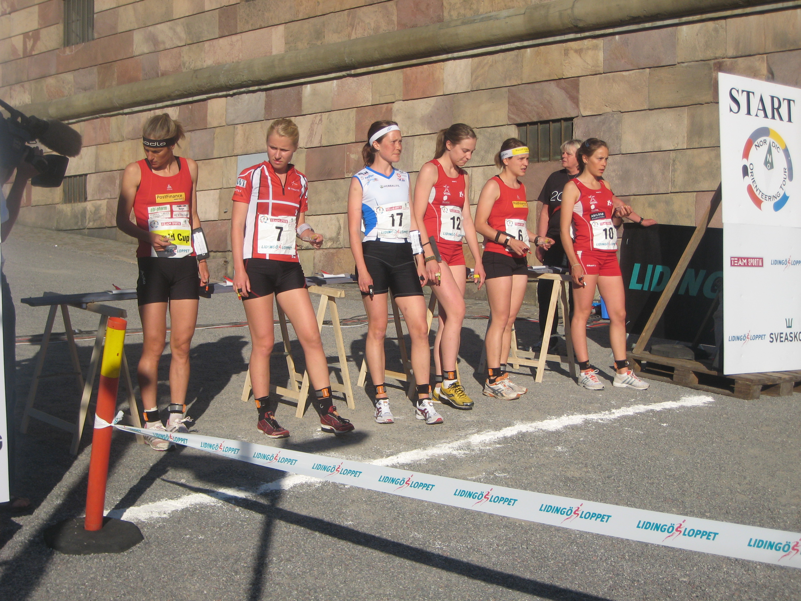 Nordic Orienteering Tour in Stockholm june 22. Simone Niggli, Maja Alm, Anni-Maija Fincke, Elise Egseth, Rahel Friederich and Ingunn H Weltzien